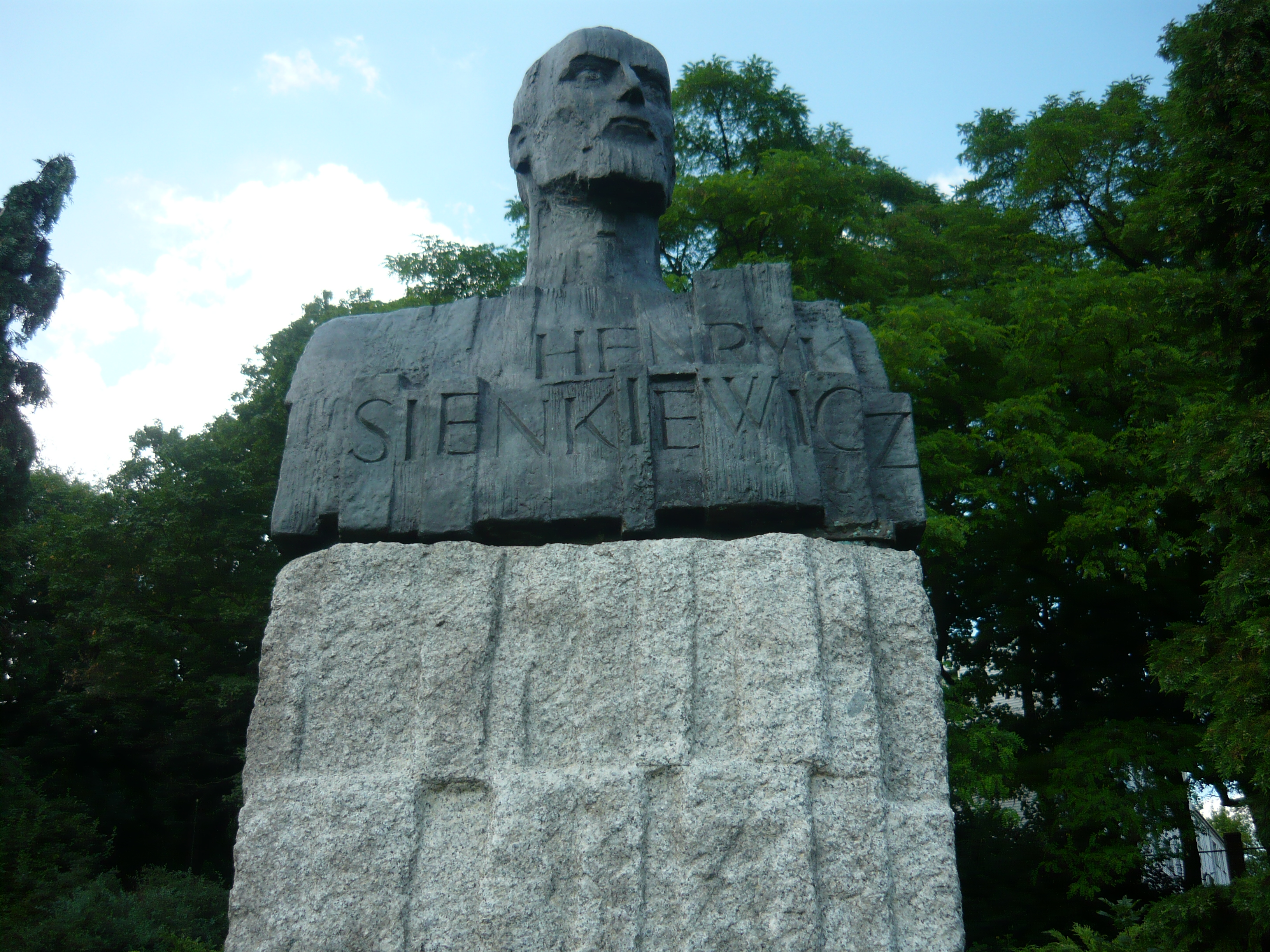 The monument (bust) of Henryk Sienkiewicz (polish writer) in park named of him.